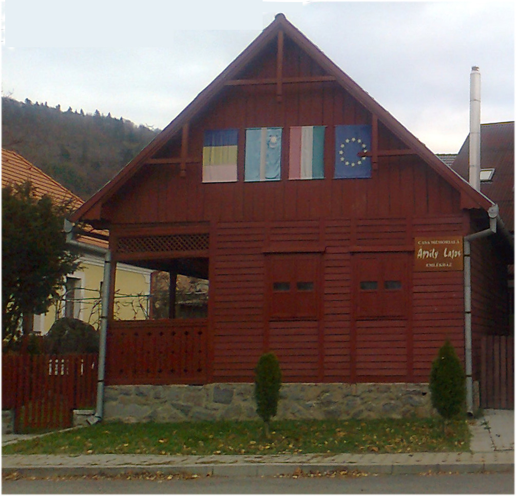 Museum of Lajos Áprily (1887–1967), Hungarian poet in Praid, Romania